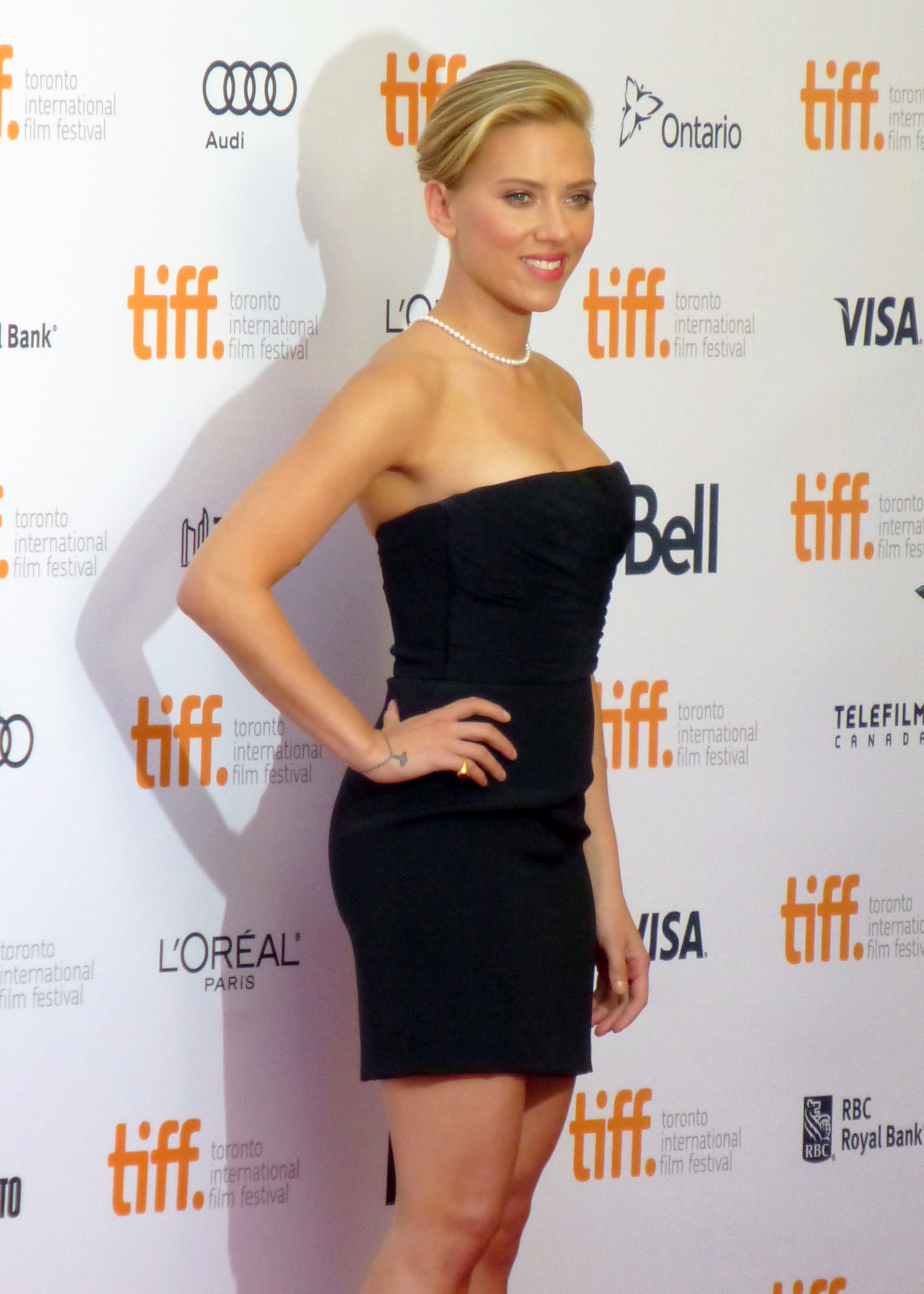 Scarlett Johansson at the Premiere of Don Jon, 2013 Toronto Film Festival